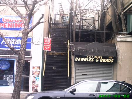 Closed stairway on the southbound side of Avenue M